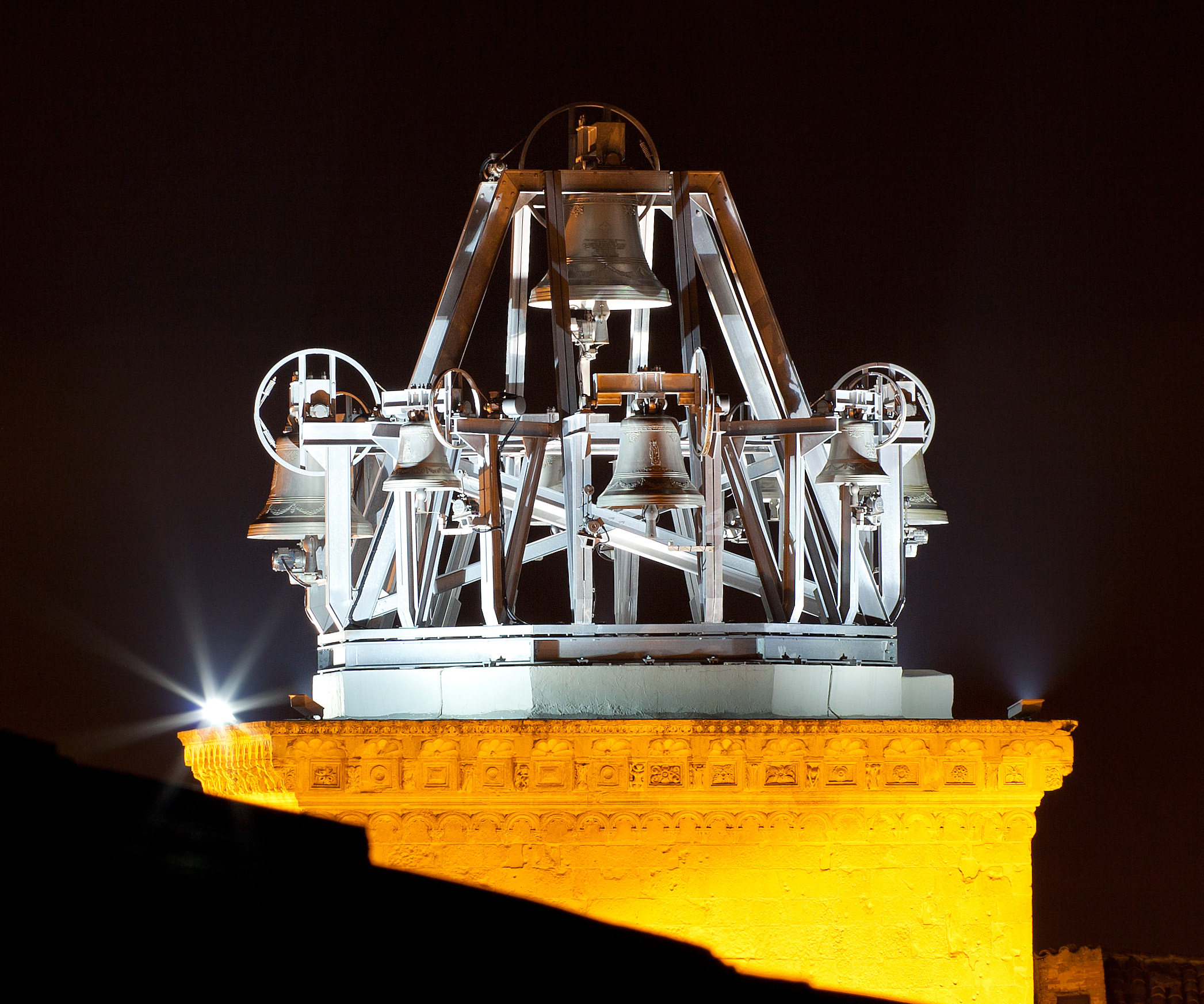 The new bells of the church Santa Maria Maggiore in Guardiagrele, IT, at night